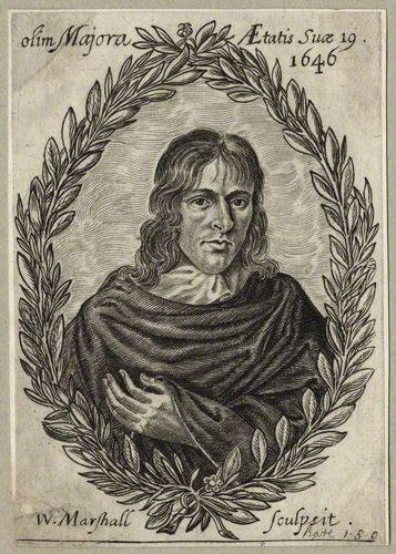 Portrait of John Hall (1627–1656), English poet, essayist and pamphleteer.